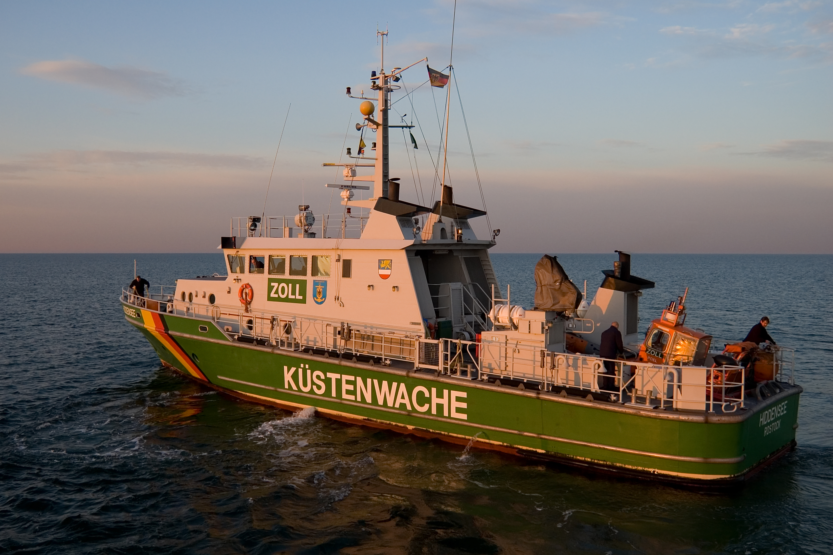 The ship Hiddensee of the German customs.